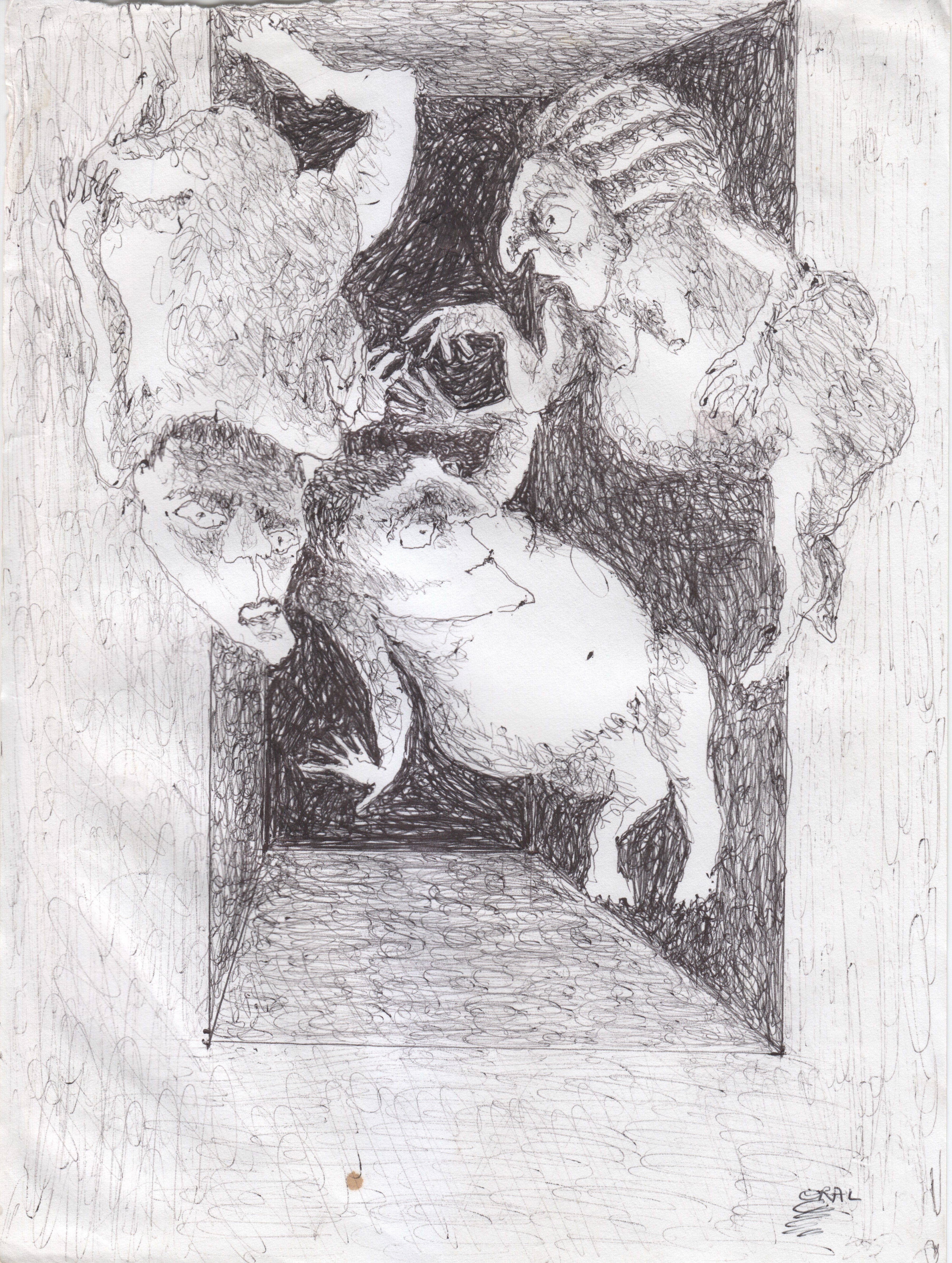 A drawing of painter Oral Enuğur